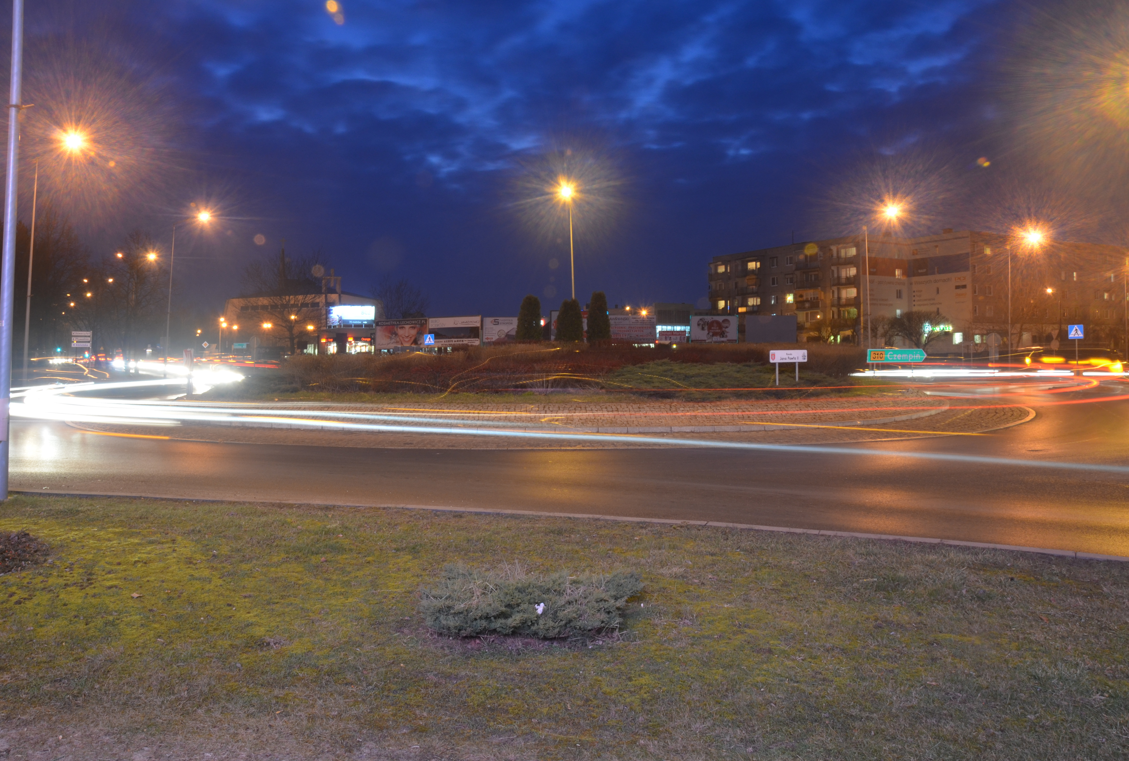 Śrem, John Paul II roundabout in 3. death anniversary .